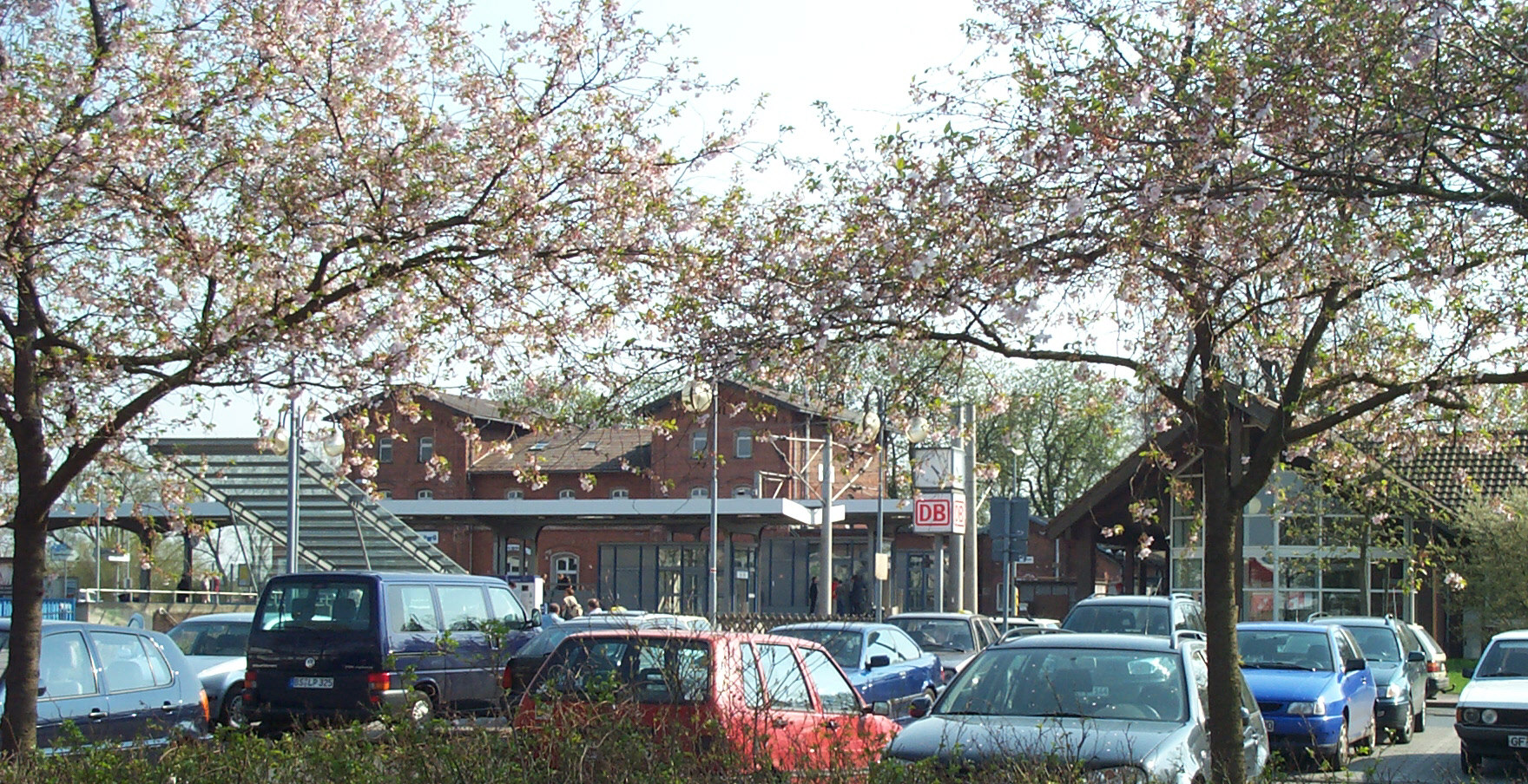 Gifhorn railroad station (formerly Gifhorn-Isenbüttel). The old station building in the background is now used as a youth workshop ("Jugendwerkstatt"), being replaced by the new building at the right side in the foreground.